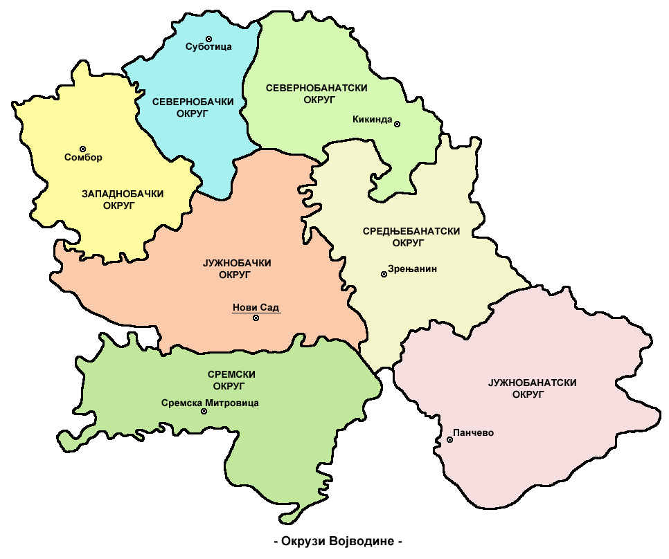 map of the districts of Vojvodina (Serbian language Cyrillic version) Serbian: мапа округа Војводине (ћирилична верзија на српском језику) References Slobodan Radovanović, Geografski atlas, Magic Map, Smederevska Palanka, 2001. Školski geografski atlas, Intersistem Kartografija, Beograd, 2004. Denis Šehić - Demir Šehić, Geografski atlas Srbije, Beograd, 2007.